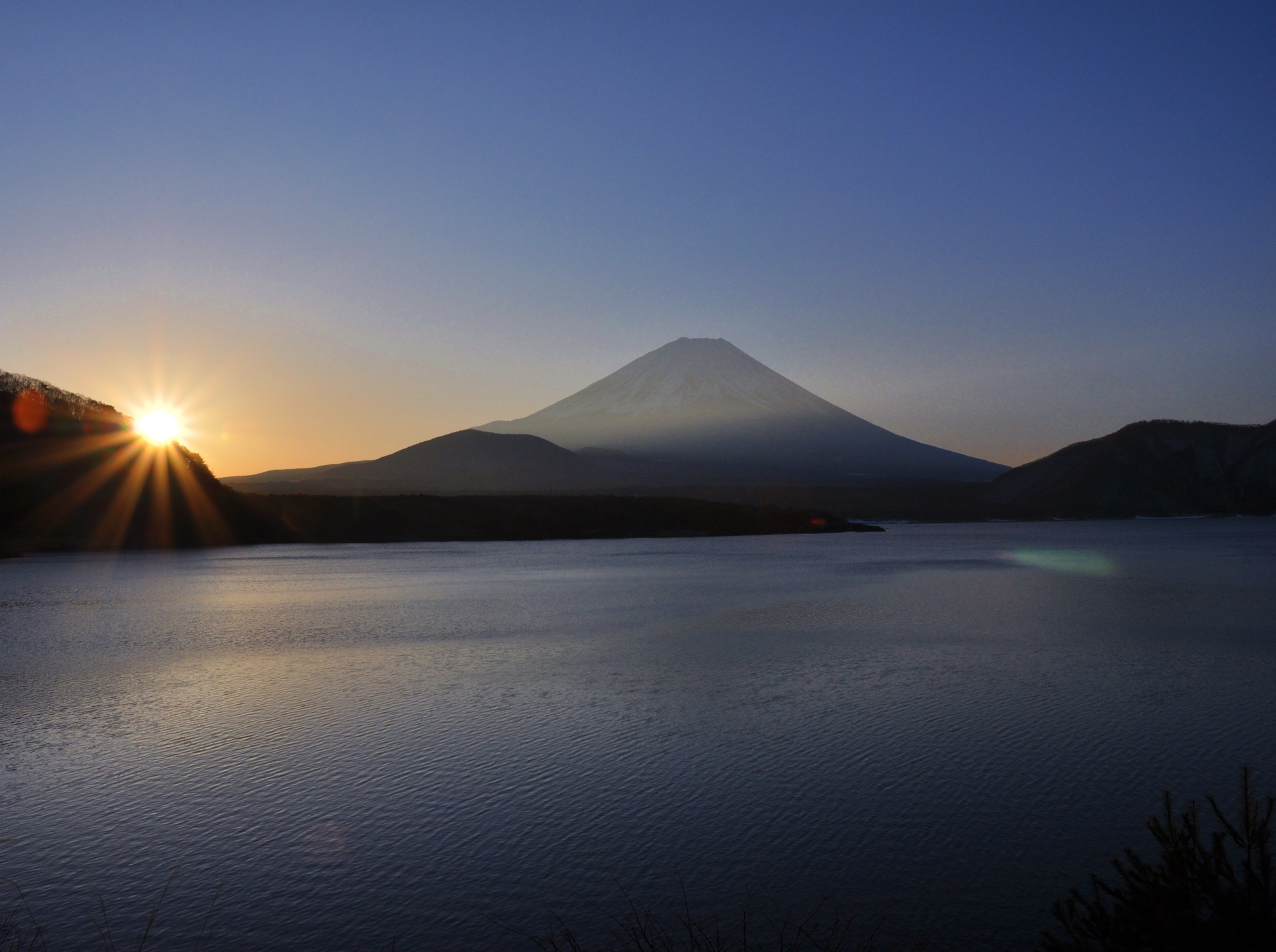 the sunrise at Lake Motosu